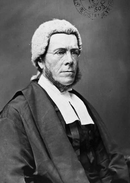 Portrait of Robert Pohlman in his judicial wig and robes. Albumen silver print. This copy of the image was lodged with the Victorian Patents Offfice in order to obtain copyright registration.